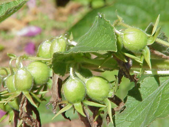 Species: Campanula latifolia macrantha Family: Campanulaceae Image No. 1